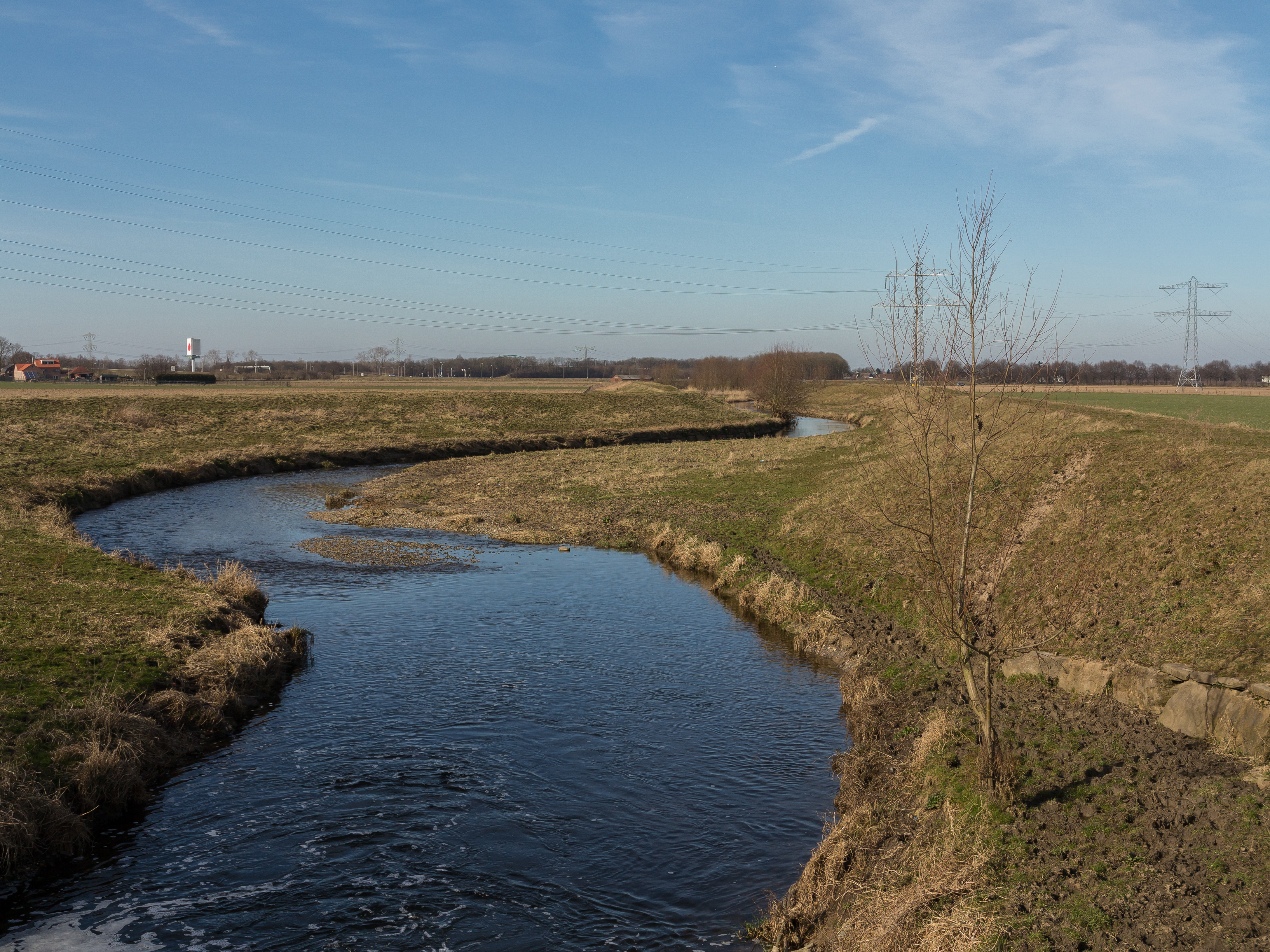 near Baakhoven, brook: de Gelenbeek